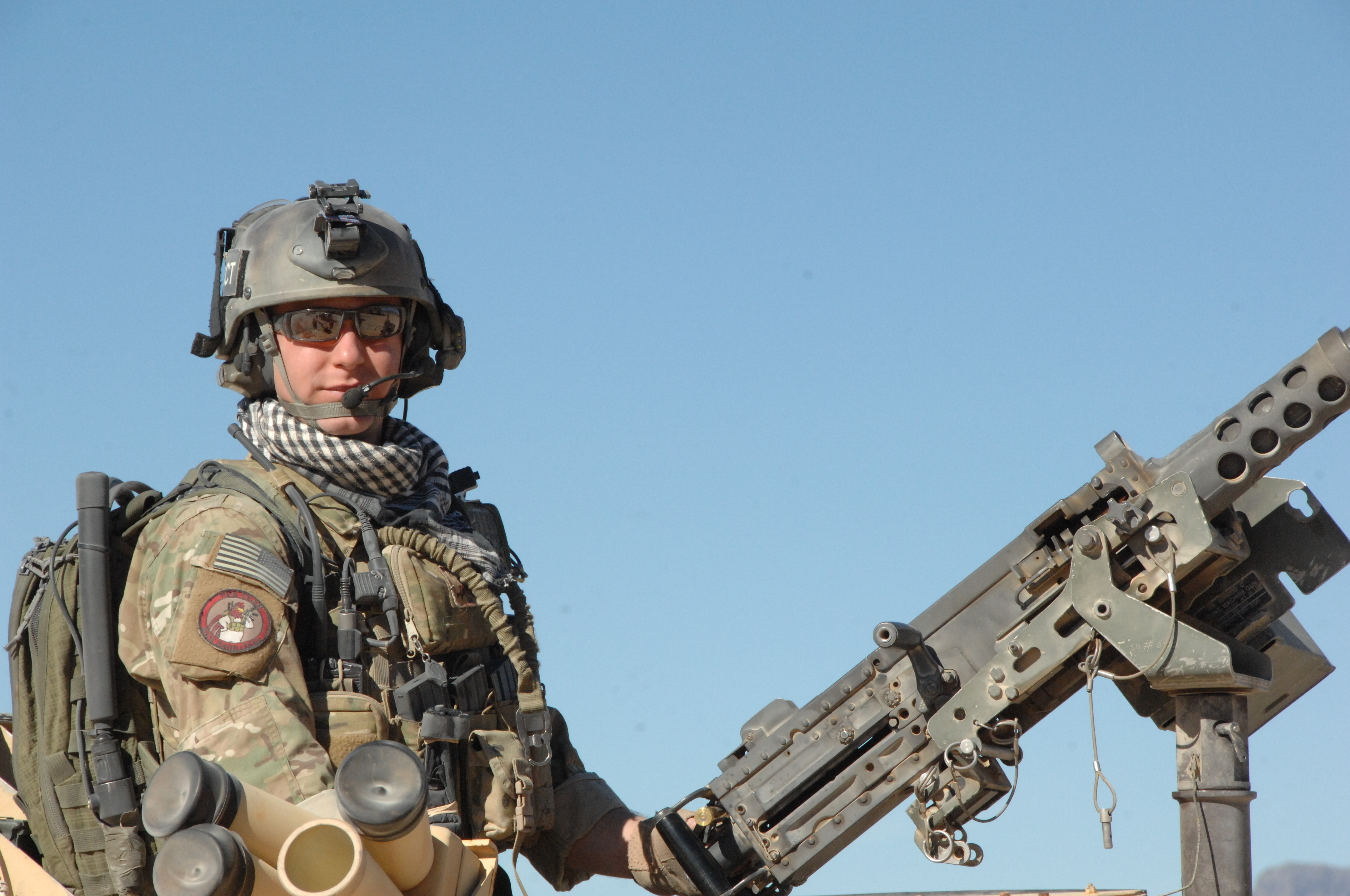 United States Air Force Combat Controller and Air Force Cross recipient Zachary J Rhyner in Afghanistan.